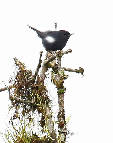 White-sided Flowerpiercer (Diglossa albilatera). A male at Old Nono-Mindo Rd, NW Ecuador.